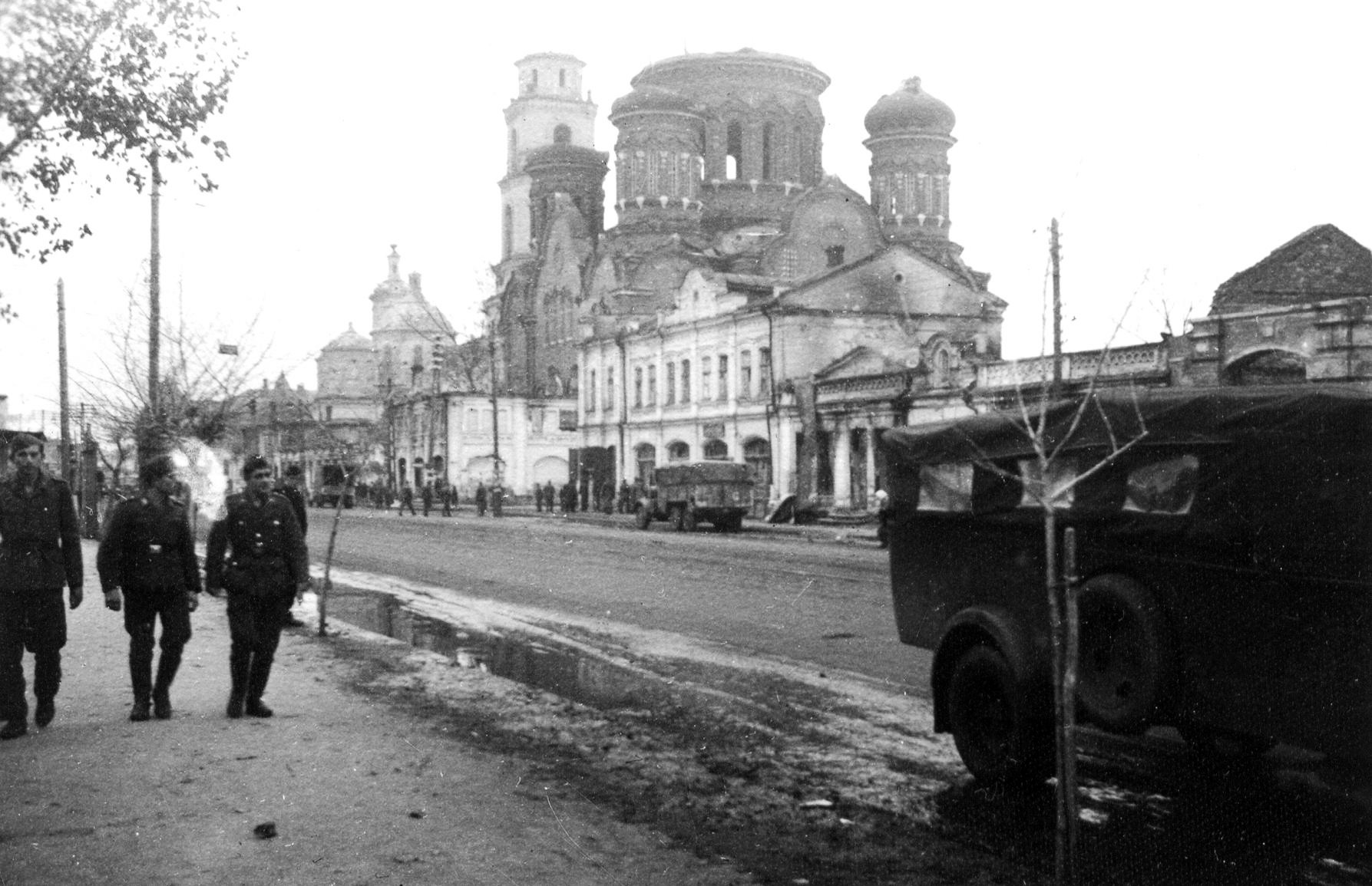 Pervomayaskaya Square in Oryol in Spring 1943